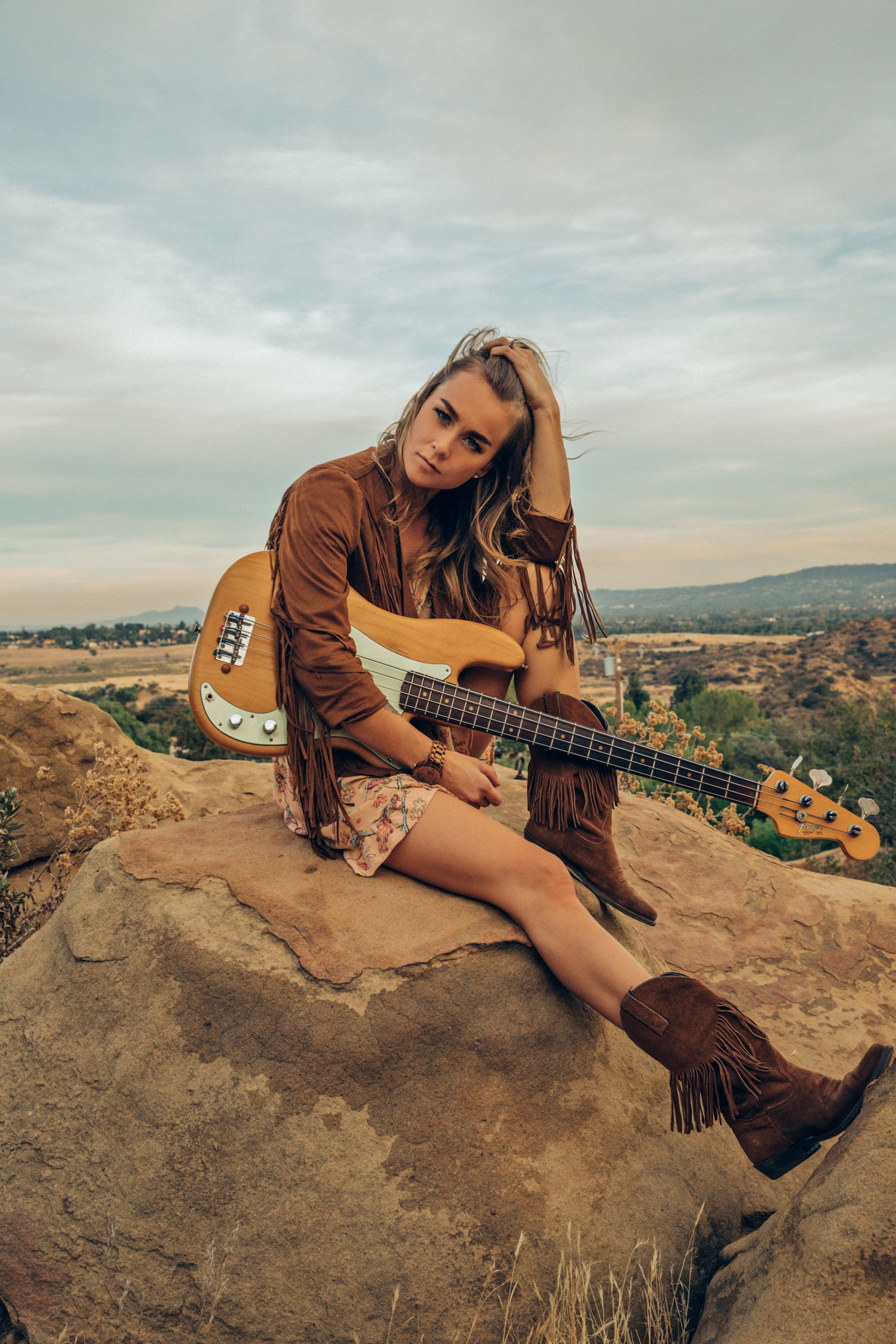 Mai Leisz, photographed by Anna C Webber in Los Angeles, CA to promote her 2019 album Metamorphosis.